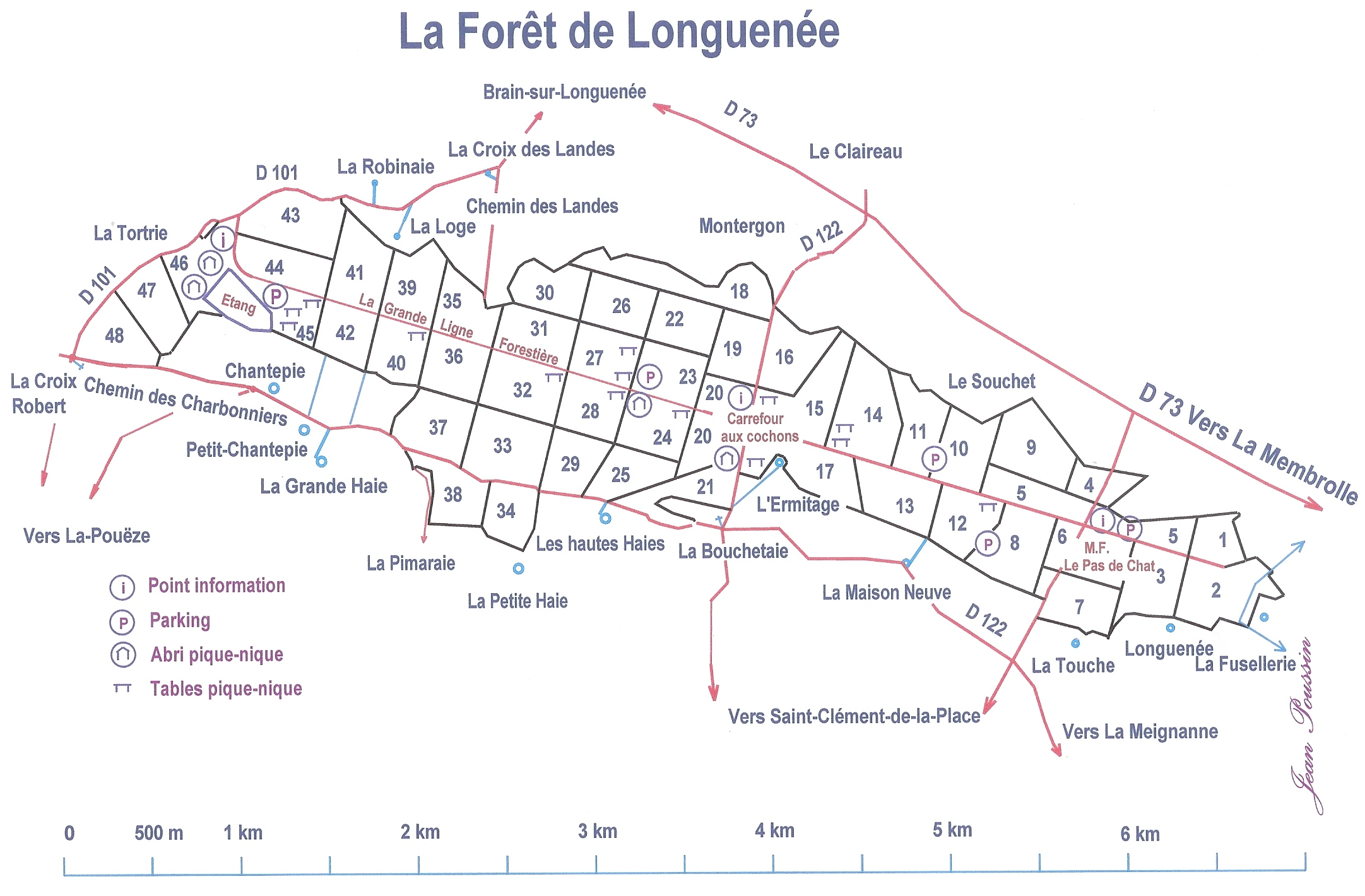 Detailled map of the Longuenée state forrest, in Maine-et-Loire department, France.